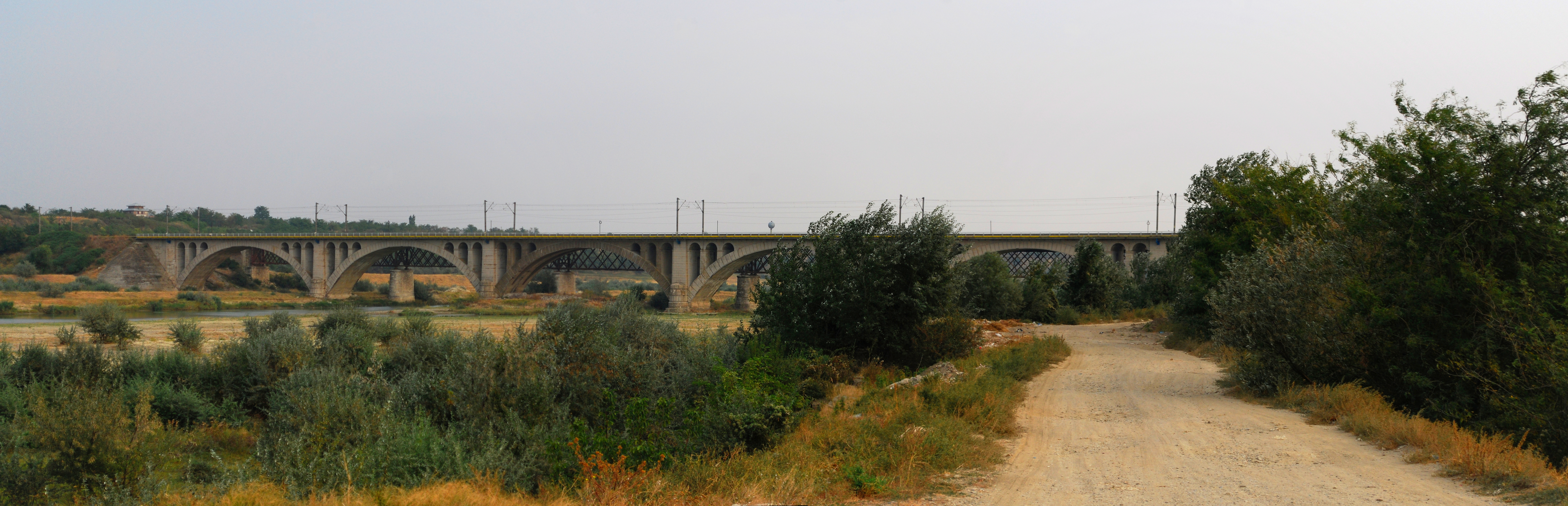 Railway bridge over the Buzău river, between Vadu Paşii and Buzău, on the Buzău-Mărăşeşti railwayRomână: Podul de cale ferată peste râul Buzău, între Vadu Paşii şi Buzău, pe calea ferată Buzău-Mărăşeşti